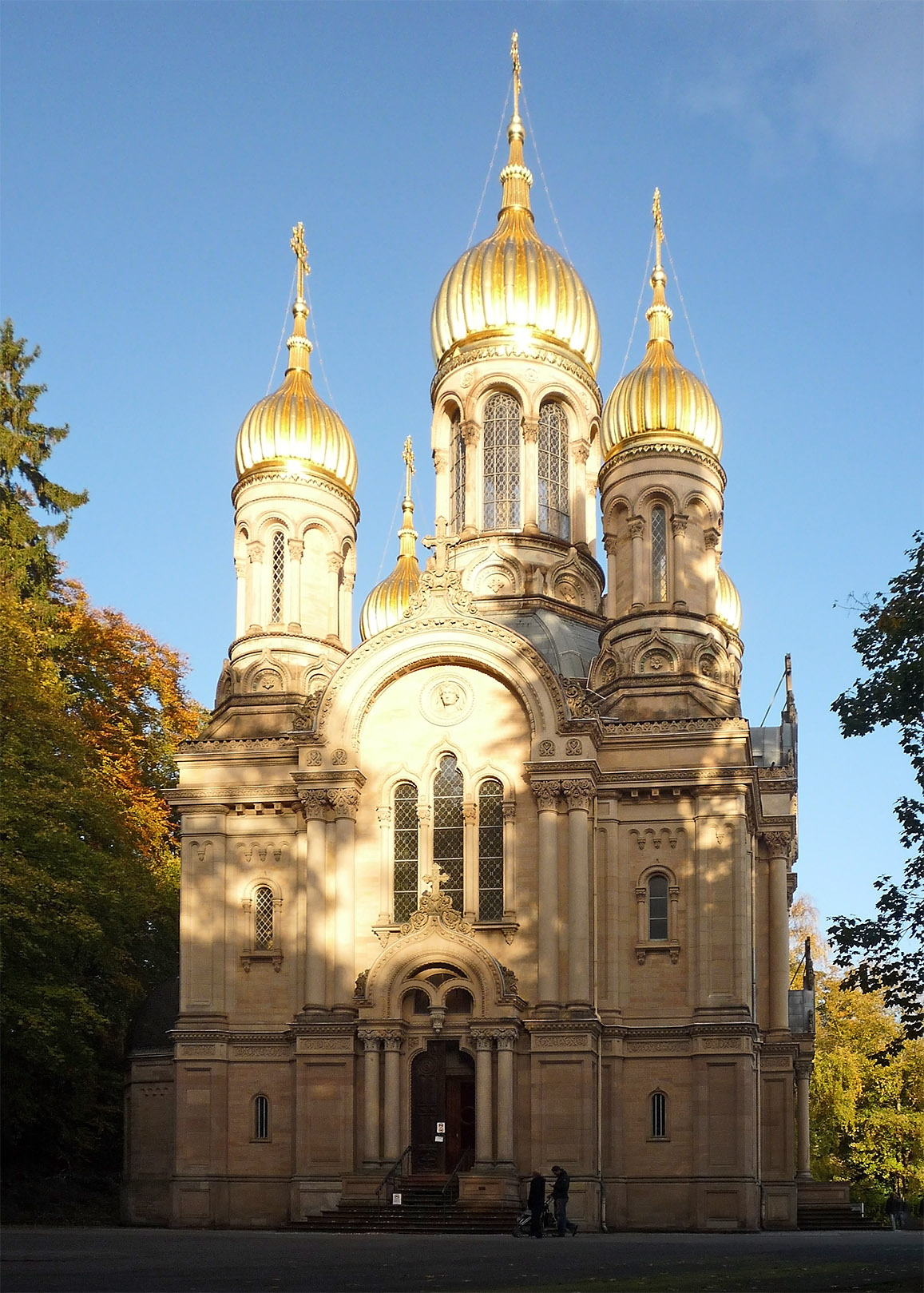 Russian Orthodox Church of Saint Elizabeth on the Neroberg mountain in Wiesbaden, Germany